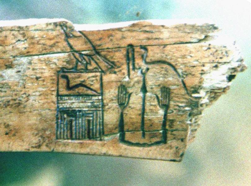 Fragment of a label (???) bearing the serekh of king Djet and the name of a court official Sekhemka-Sedjet. Probably from Saqqara. Tomb S 3504. Conservation: Cairo. Egyptian Museum Sekhemka-sedjet, seems to have been an important official during the reign of Djet. His name is often written by the king on certain objects from the necropolis of Saqqara.